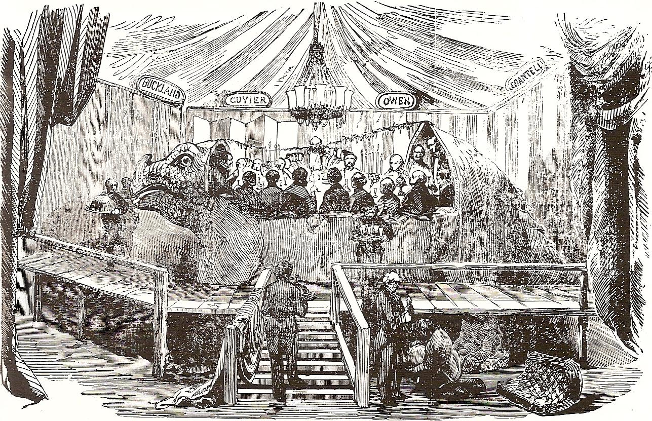 Woodcut of the famous (crowded) banquet in Benjamin Waterhouse Hawkins' standing Crystal Palace Iguanodon